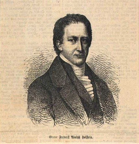 Frederik Adolph Holstein(-Holsteinborg) (1784-1836), Danish Count, estate owner, and politician